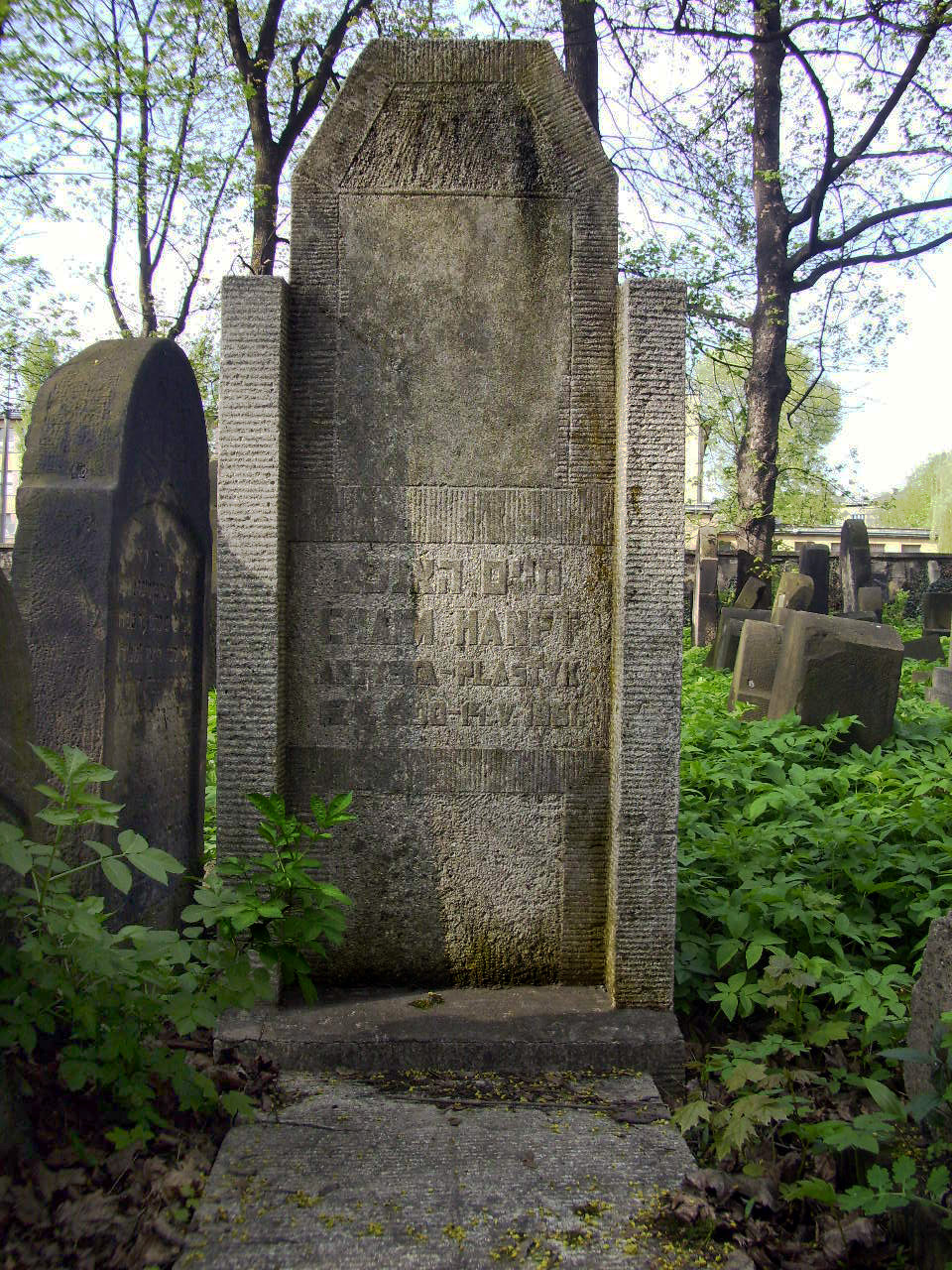 Grave of Chaim Hanft in New Jewish Cemetery in Kraków